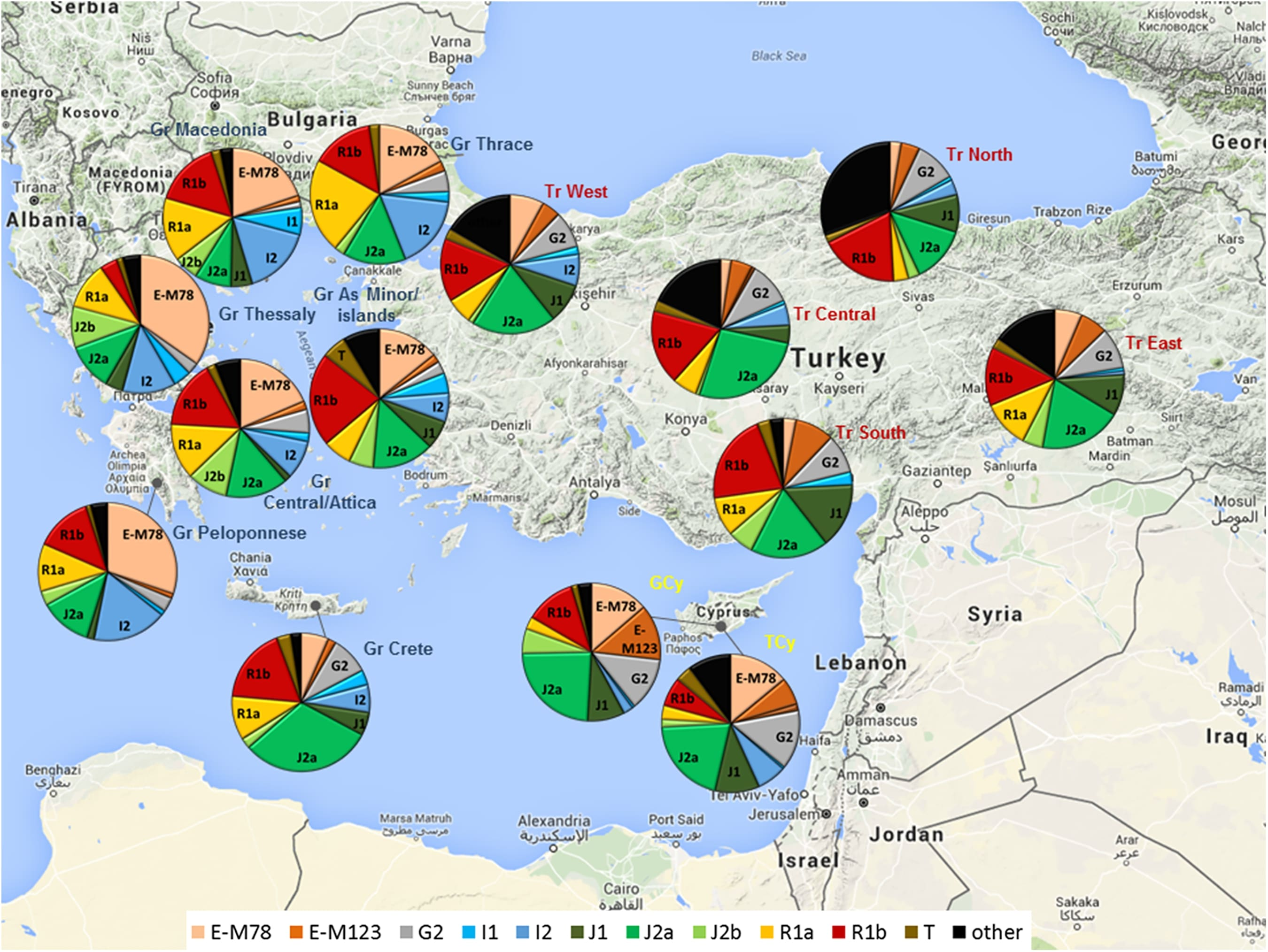 Y DNA differences between Turks, Greeks and Cypriots